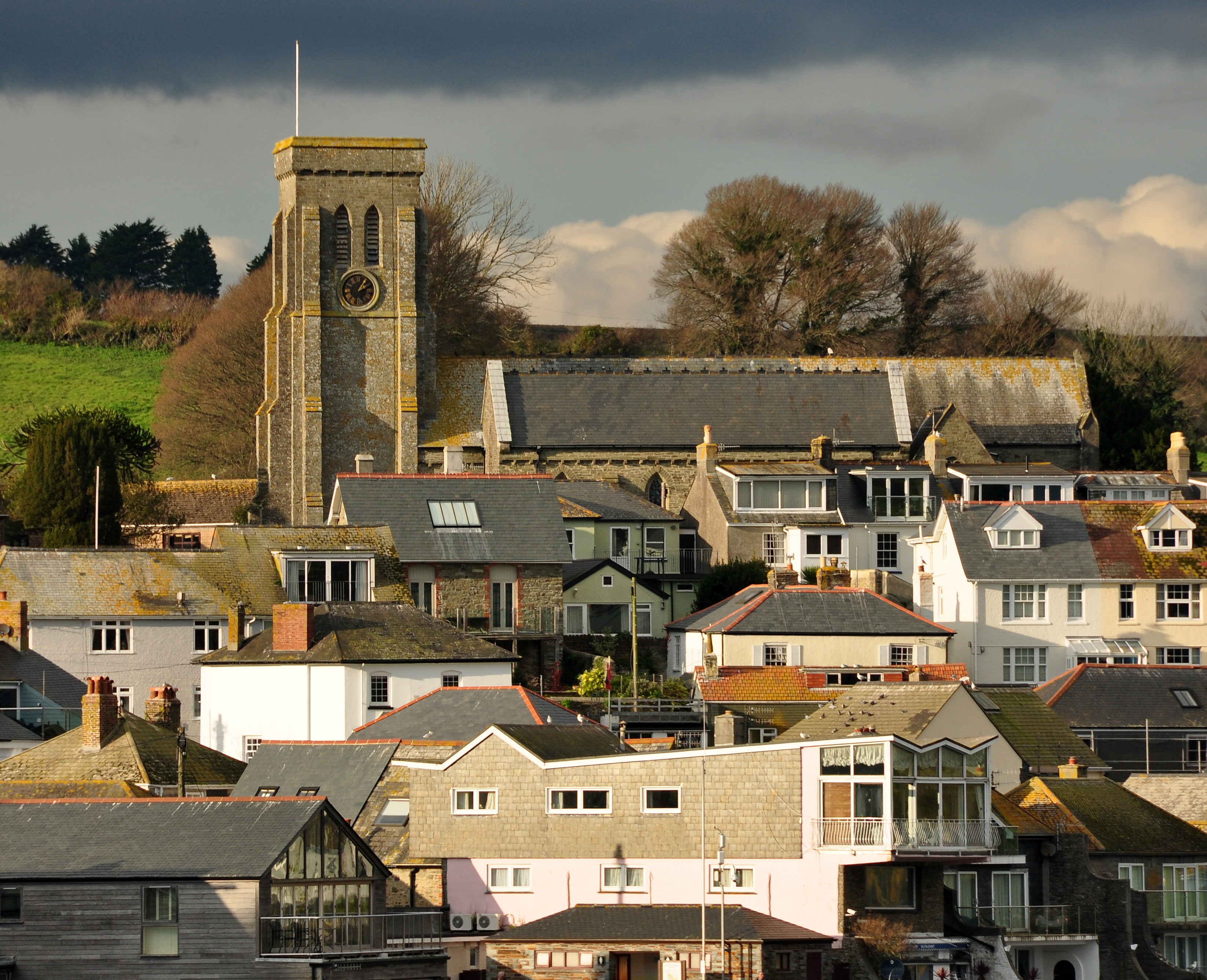 The parish church in Salcombe, South Devon.